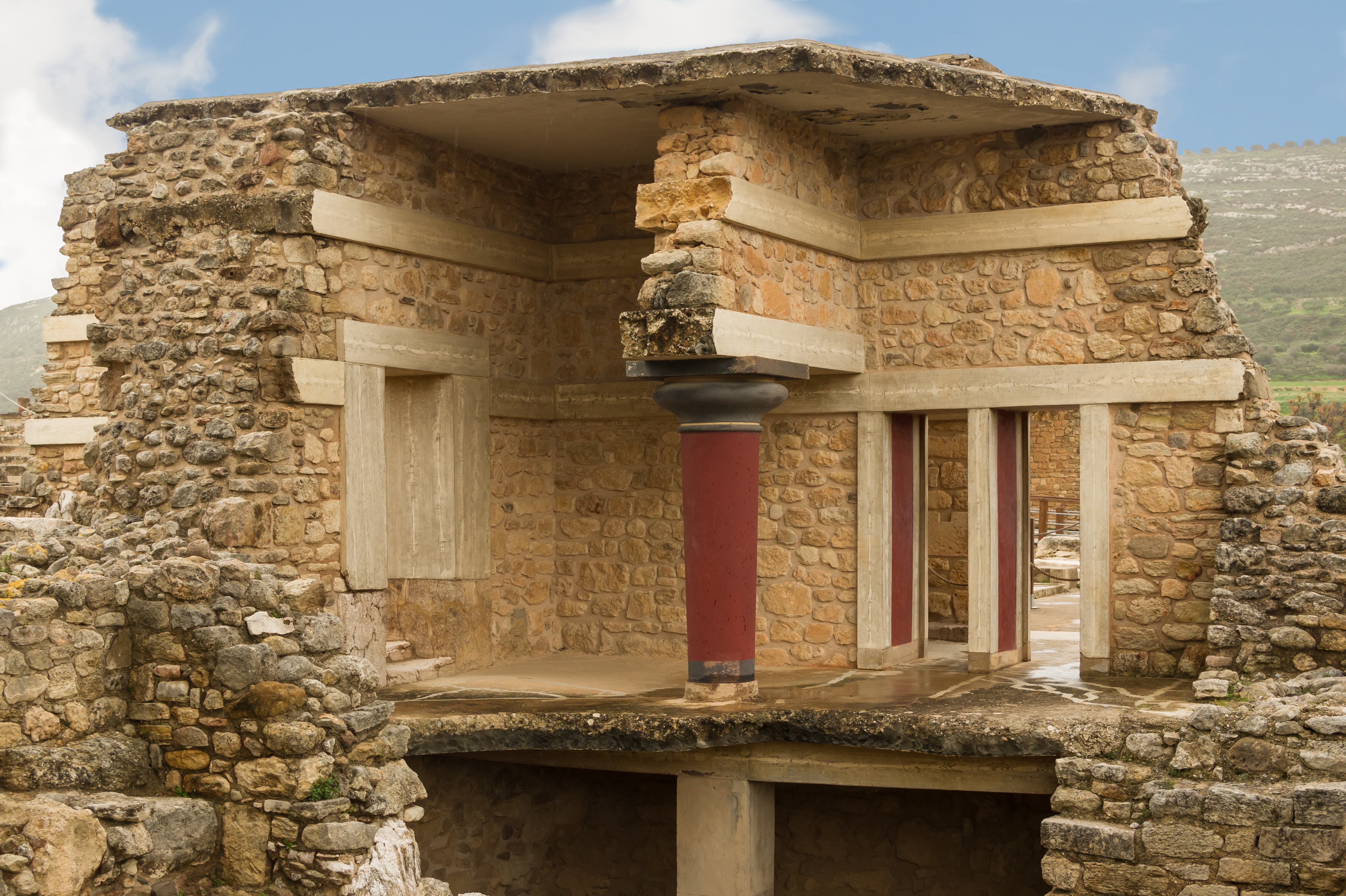 Knossos palace, the south propylaeum. Crete, Greece.